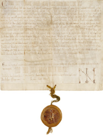 The Regensburger Schied (Regensburg Decision) by emperor Frederick I Barbarossa withdrew the rights grantet to Henry the Lion in the Augsburg decision of 1158